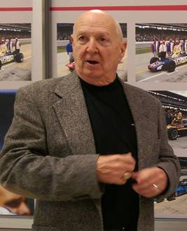 Photographer Ron McQueeney speaking at the Indianapolis Motor Speedway Hall of Fame in 2015. He is the former Director of Photography at the Indianapolis Motor Speedway (1977-2011)